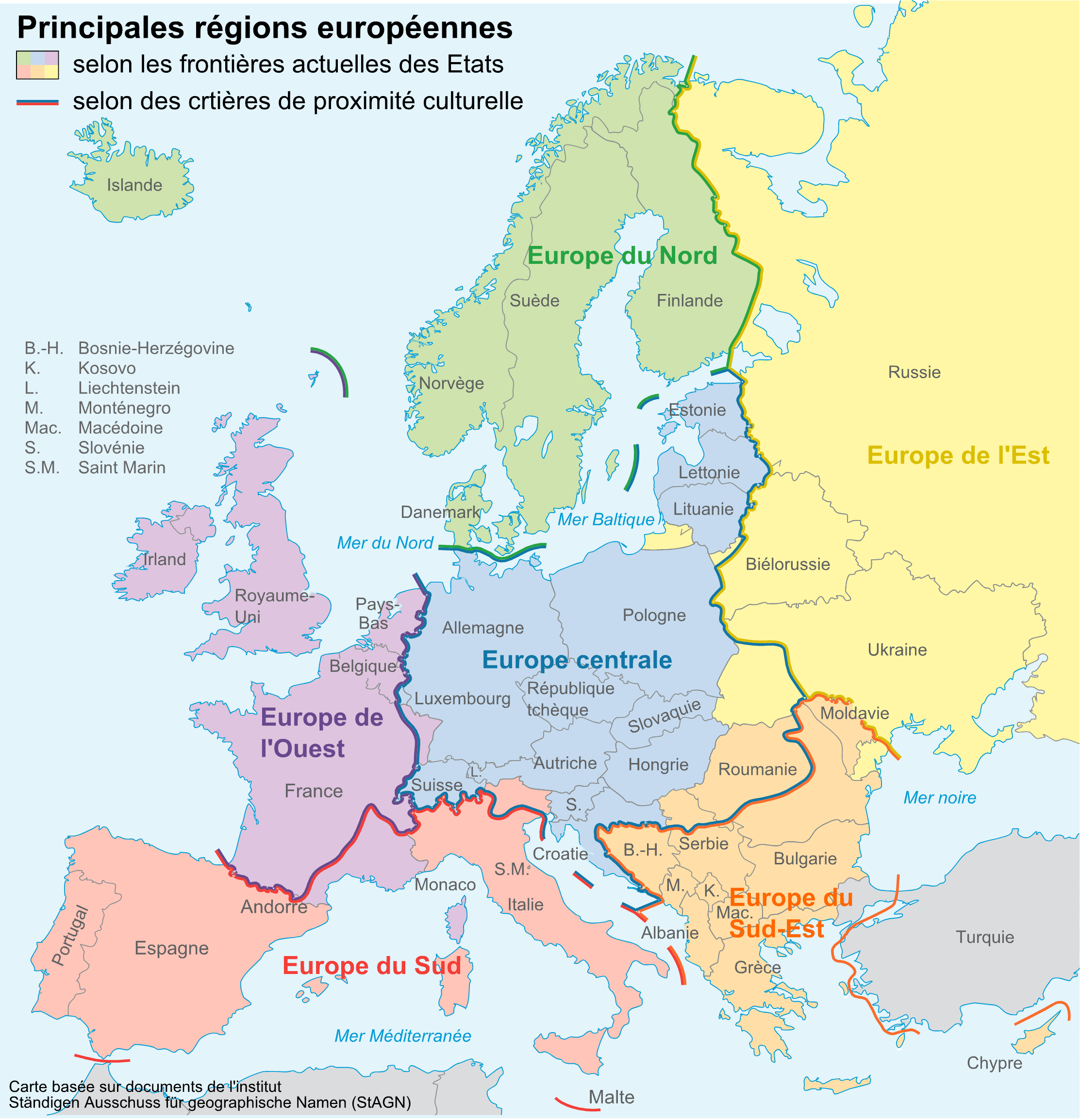 European regions as proposed by Ständiger Ausschuss für geographische Namen (StAGN)